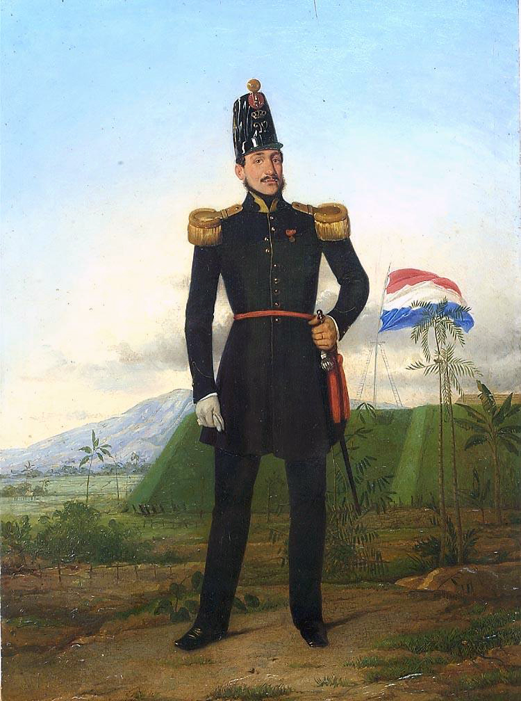 Oil painting with an officer of the KNIL, the Royal Dutch East Indies Army.